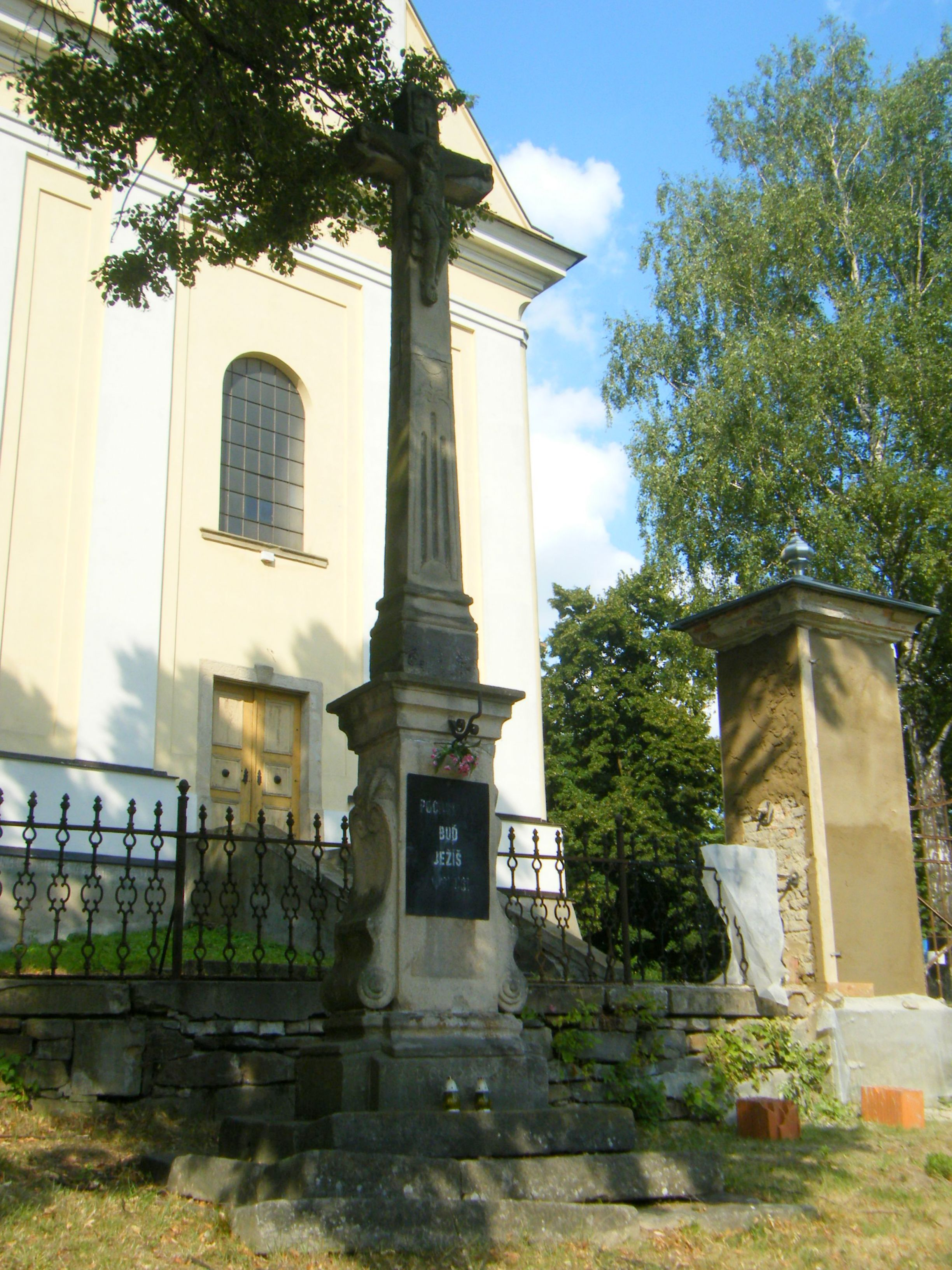 Studénka-Butovice, crucifix in front of the church